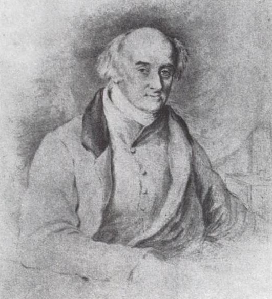 Portrait of Dr. Edward Long Fox (1761 - 1835), the British pioneer of humane care for the mentally ill and founder of Brislington House